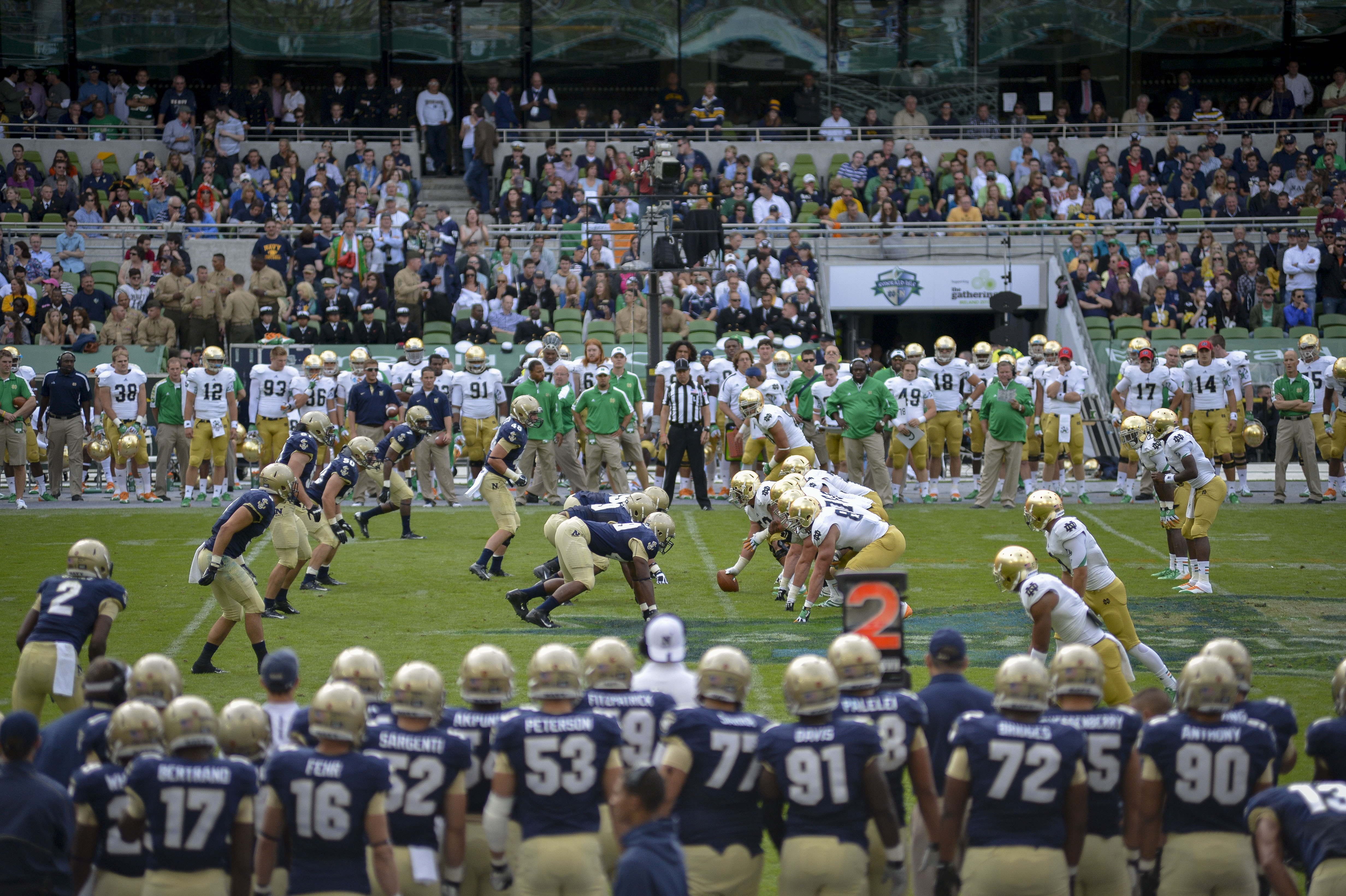 DUBLIN (Sep. 1, 2012) Notre Dame and Navy line up on scrimmage during the NCAA Emerald Isle Classic college football season opener. Notre Dame beat Navy 50-10. (U.S. Navy photo by Mass Communication Specialist 1st Class Peter D. Lawlor/Released) 120901-N-WL435-990 Join the conversation navylive.dodlive.mil